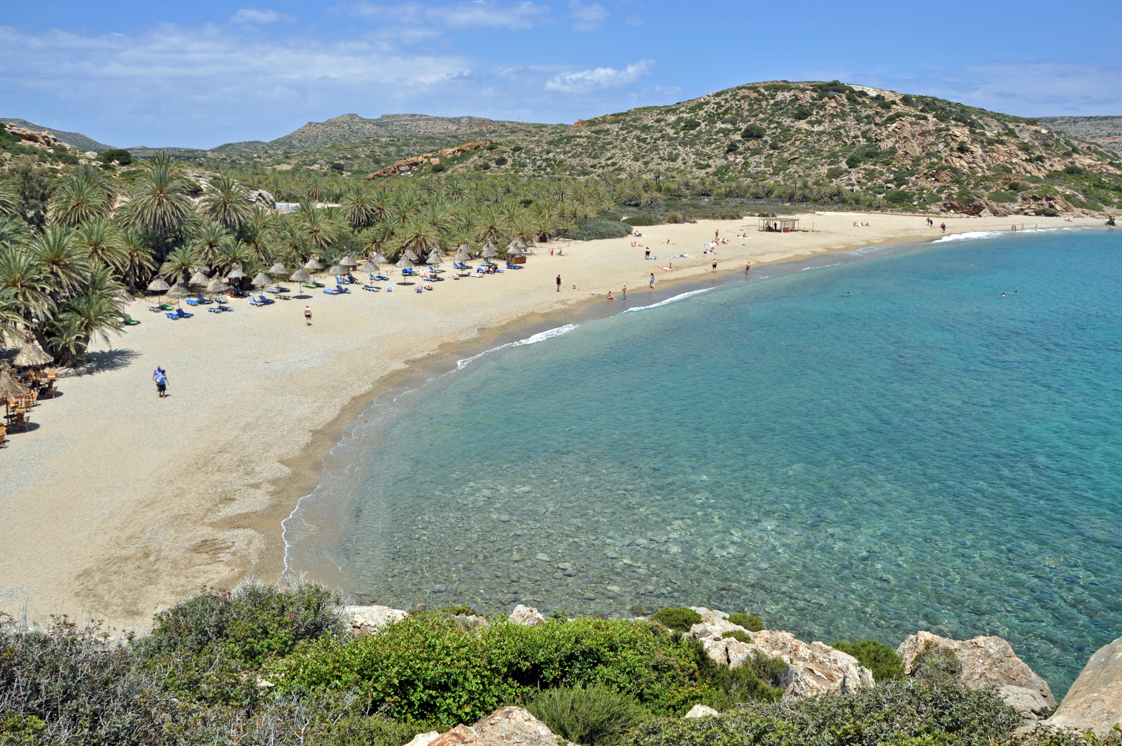 The palm beach of Vai (Crete, Greece)